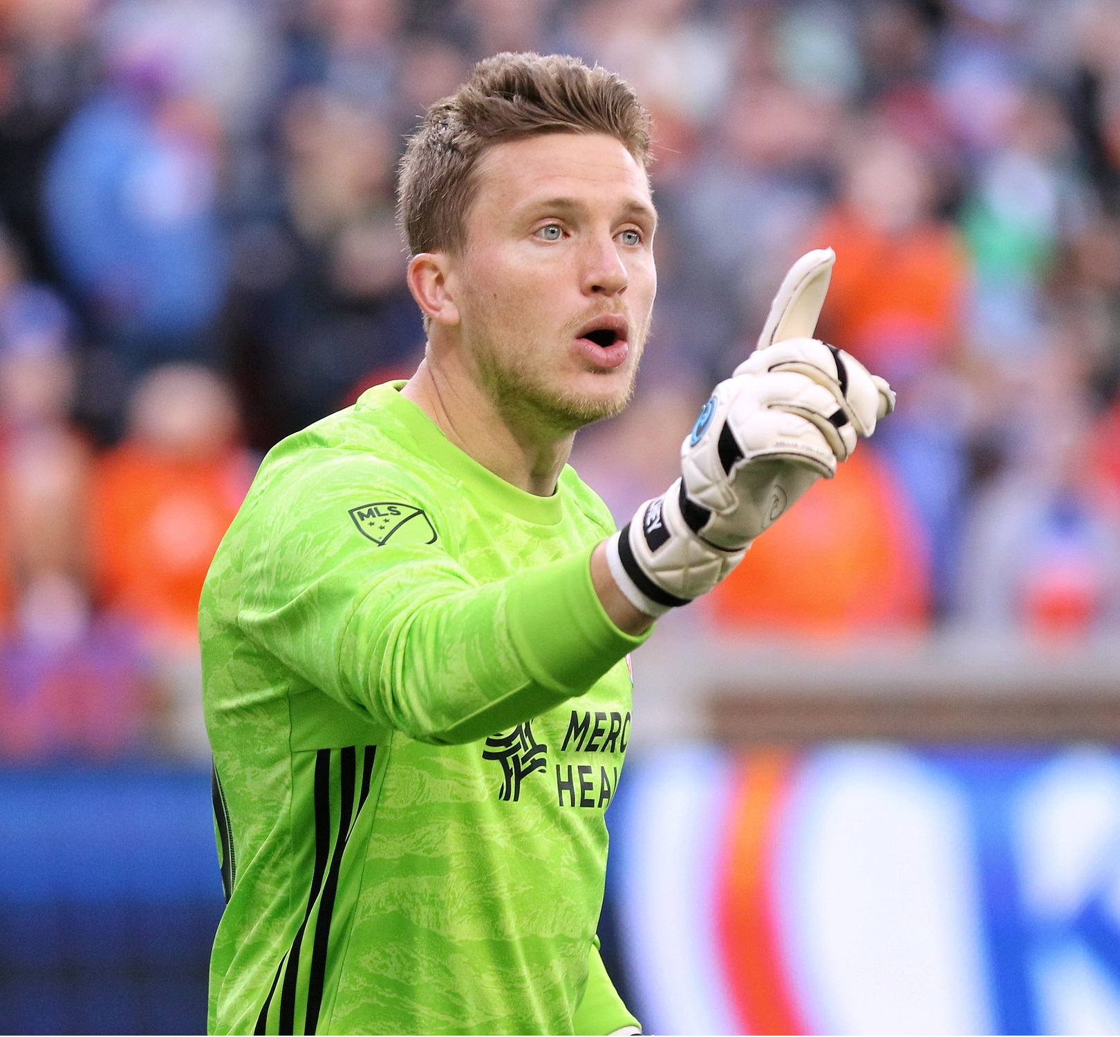 Spencer Richey of FC Cincinnati plays in their match against the Portland Timbers on March 17, 2019.